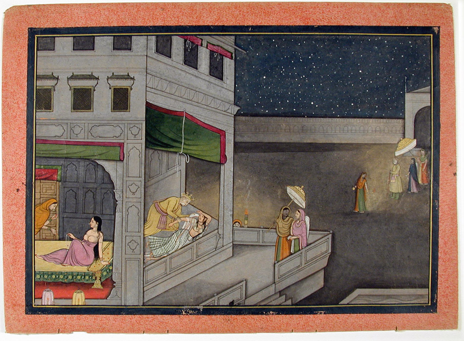 Series Title: Rama's Journey Suite Name: Ramayana Display Artist: Nainsukh Creation Date: last quarter 18th century Display Dimensions: 9 23/32 in. x 13 31/32 in. (24.7 cm x 35.5 cm) Credit Line: Edwin Binney 3rd Collection Accession Number: 1990.1269 Collection: The San Diego Museum of Art